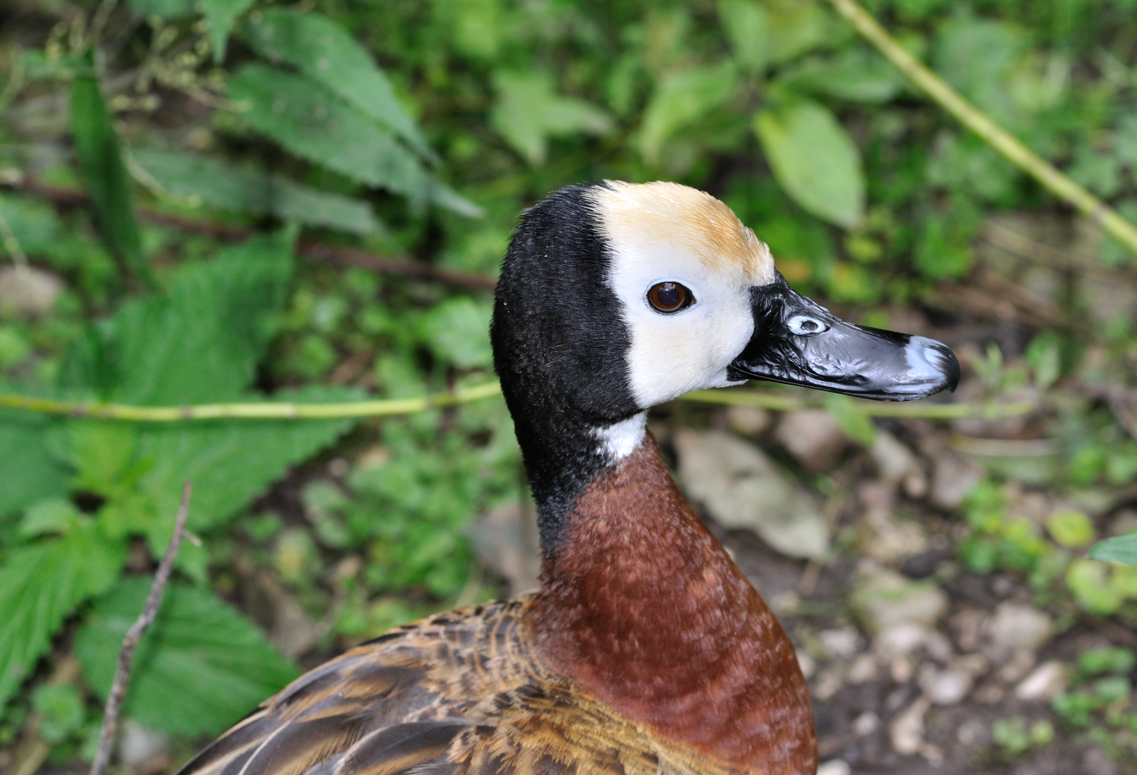 White-faced Whistling Duck (Dendrocygna viduata) in the Tierpark Hellabrunn, Munich, Germany.